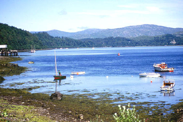 Loch Aline looking north east